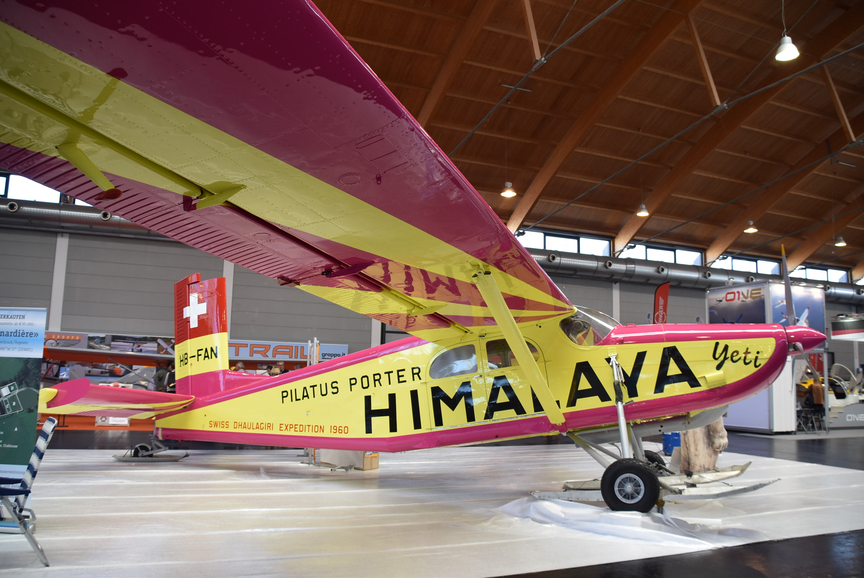 Pilatus PC-6 Porter at Aero2016,Messe Friedrichshafen, Germany, 20/04/16. The aircraft replicates the first prototype PC-6 to be built, HB-FAN,and which crashed in a landing accident in 1960.